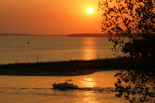 Boaters enjoying a sunset cruise on Rathbun Lake near Centerville, Iowa.